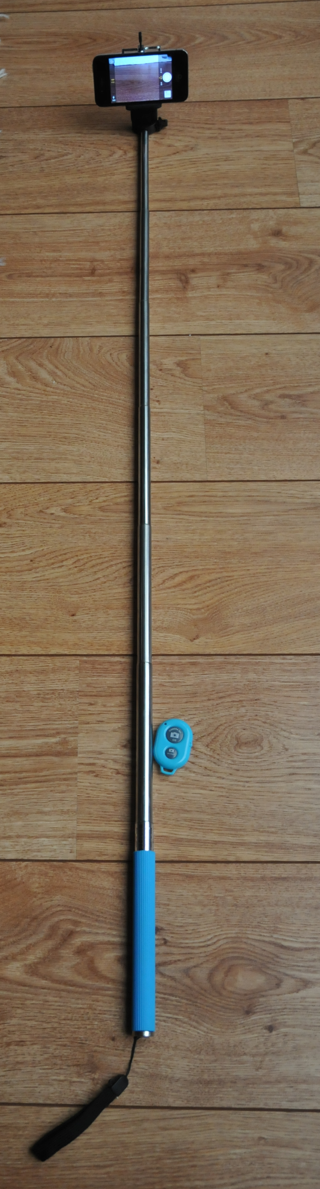 Completely expanded Selfie Stick